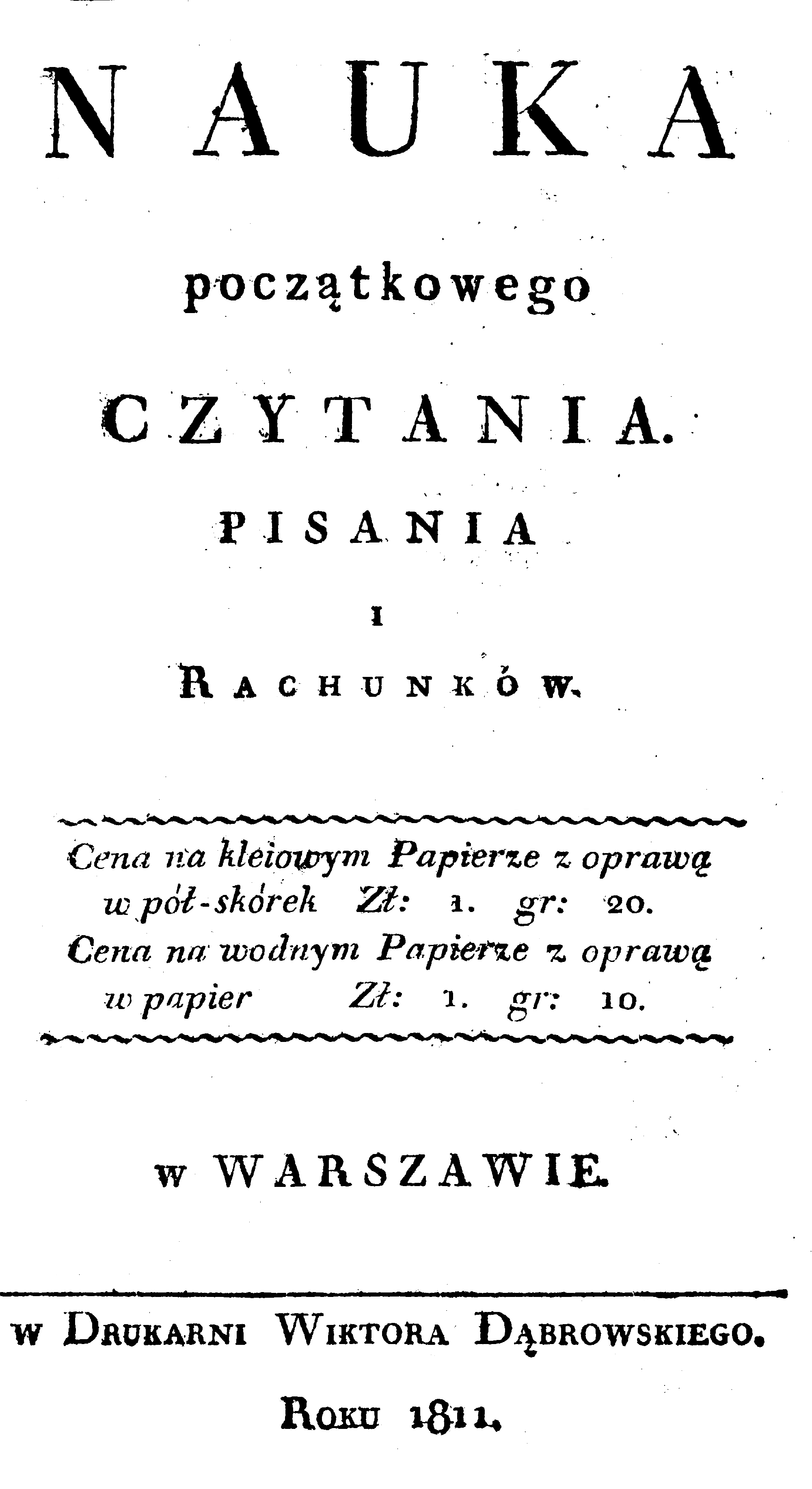 Konstanty Wolski 'Nauka początkowego czytania, pisania i rachunków'